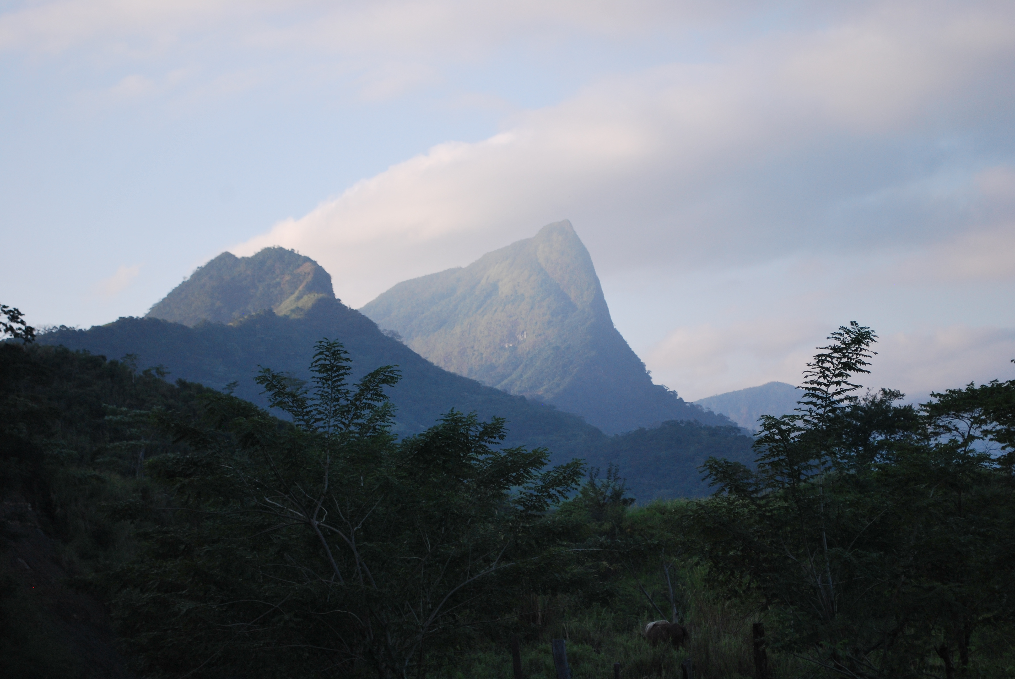 Mountain area in southern Veracruz near Tabasco border off of Malpasito-Coatzacoalcos highway